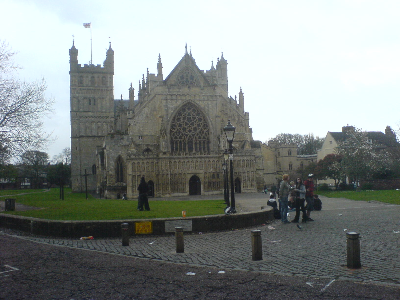 Cathedral in Exeter